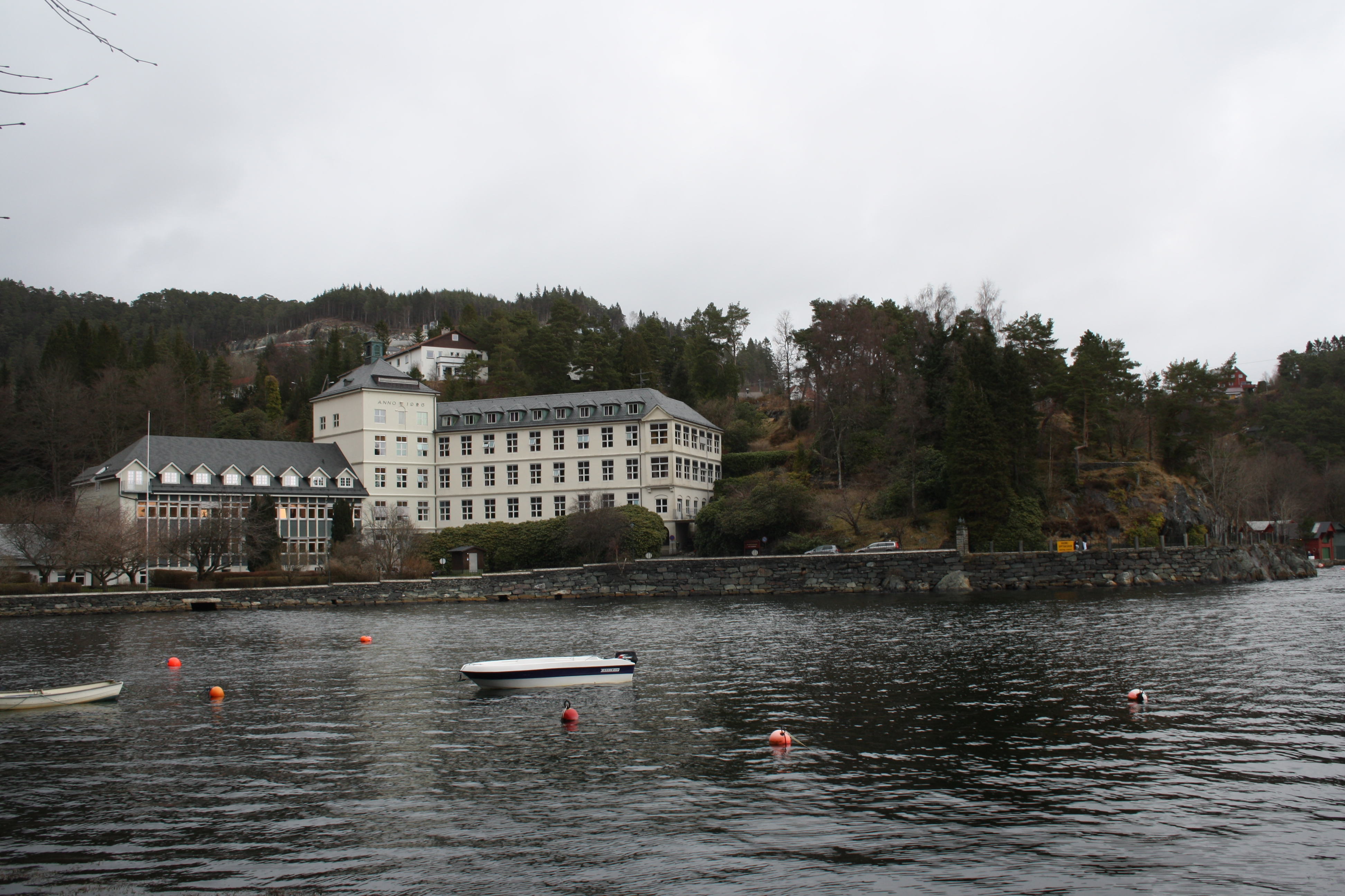 Kysthospitalet i Hagavik, Os, Hordaland, Norway